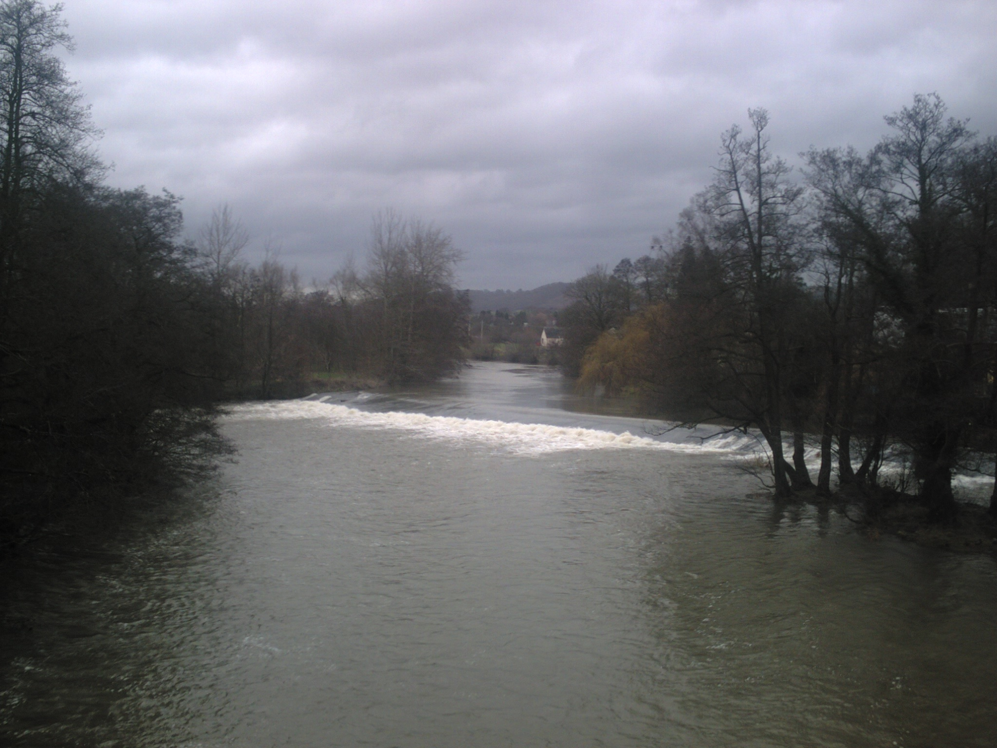 River Teme at Ludlow